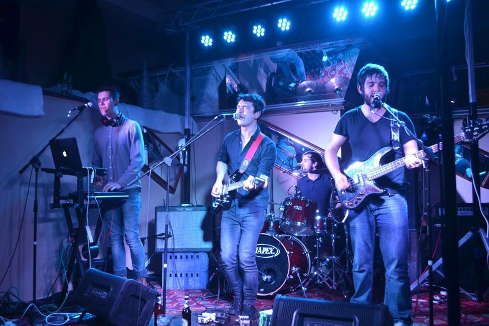 Young Aviators performing Live at the Balmoral Warrenpoint, Boxing Day 2014